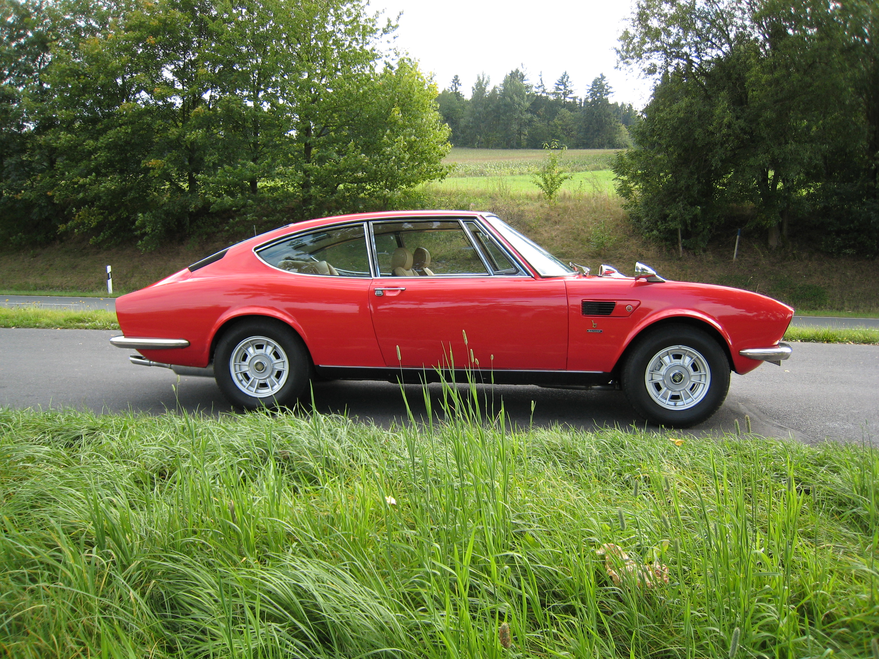 71 Fiat Dino 2400 Coupe